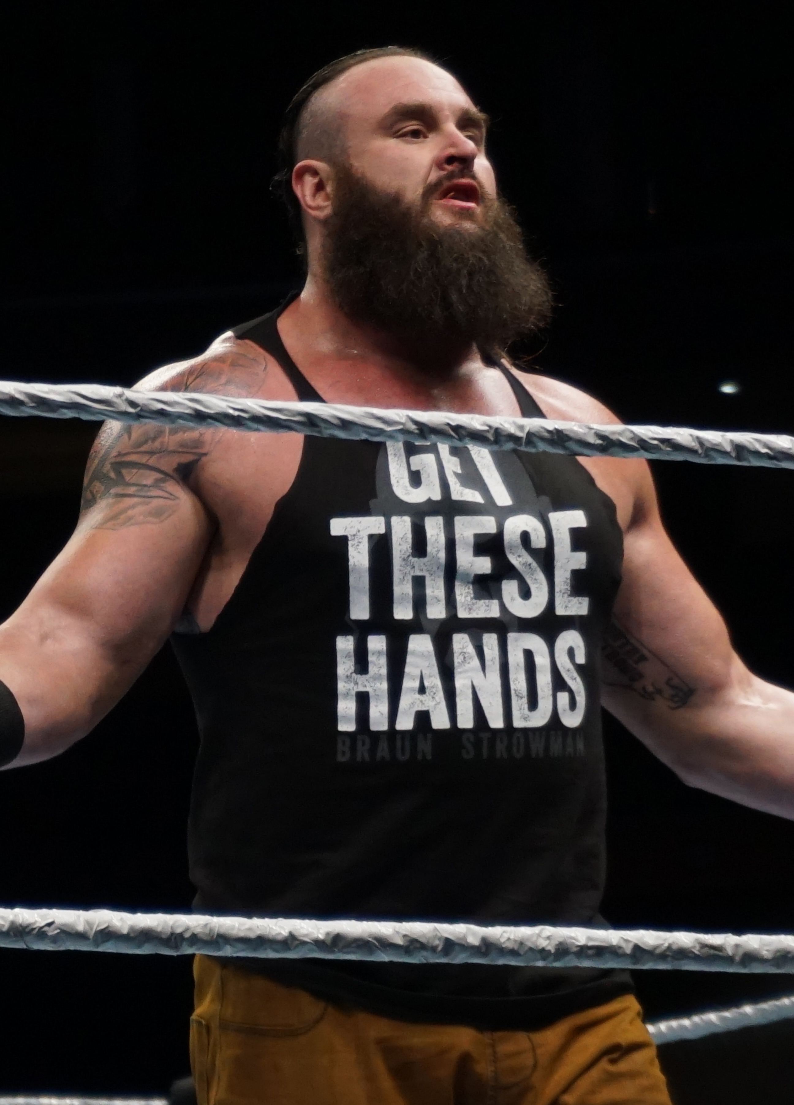 Braun at the WWE live show in Buffalo, NY on March 25th, 2018